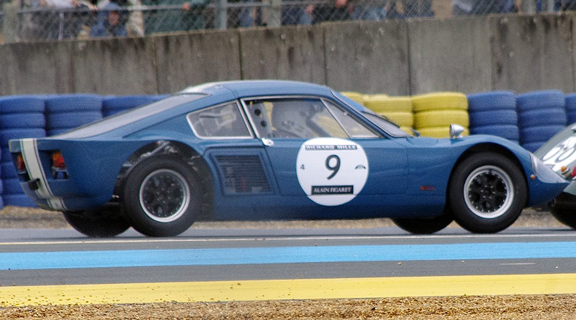 A 1964 Elva GT 160 at the Le Mans Classic 2014